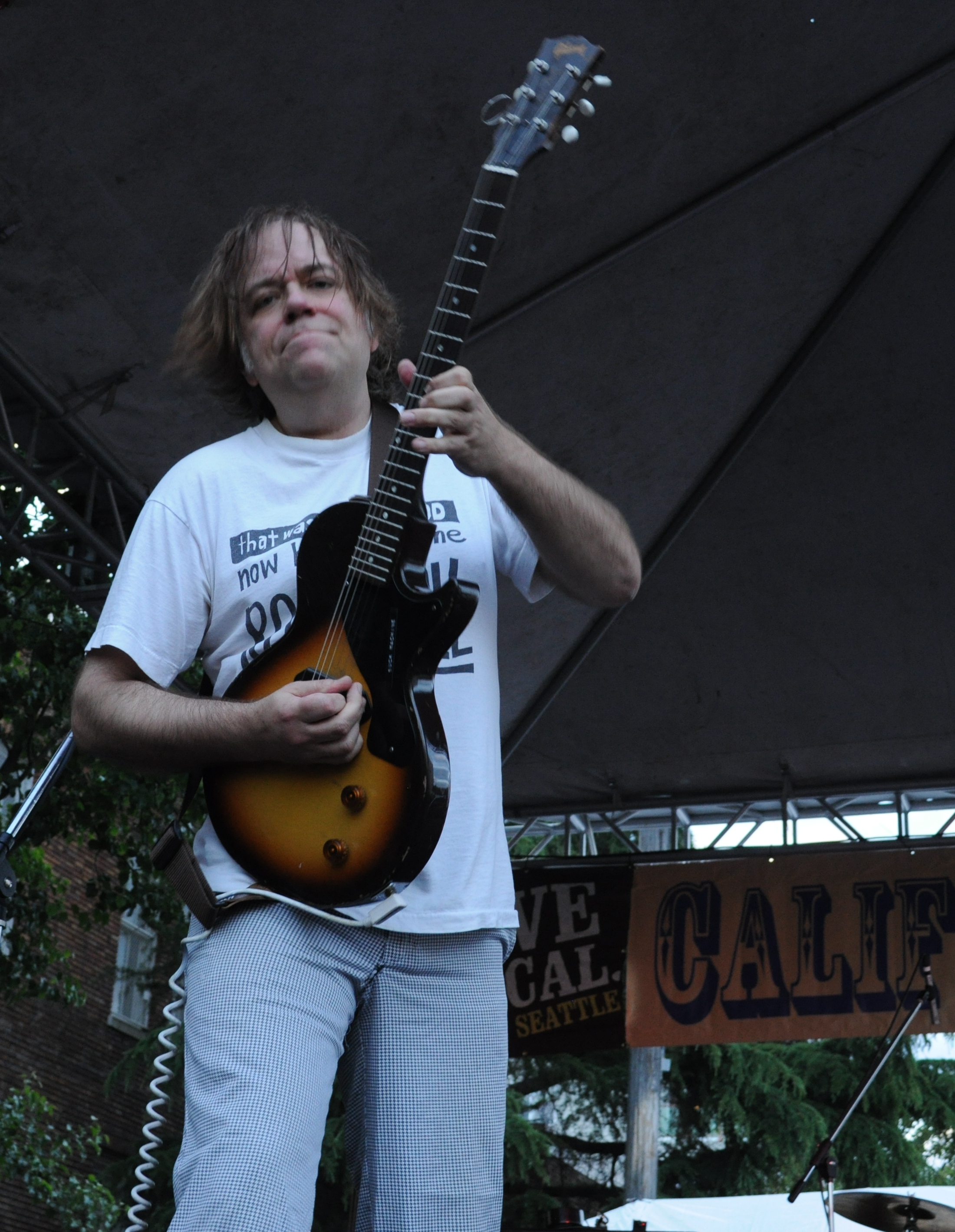 Kurt Bloch of the The Fastbacks, playing at their first reunion gig in over five years, at West Seattle Summer Fest, Seattle, Washington, USA.